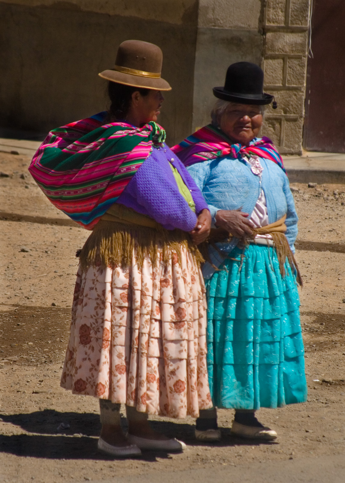 In Bolivia live both Aymara and Quecha people. The Aymara women wear skirts that are slightly lower in the front than in the back.